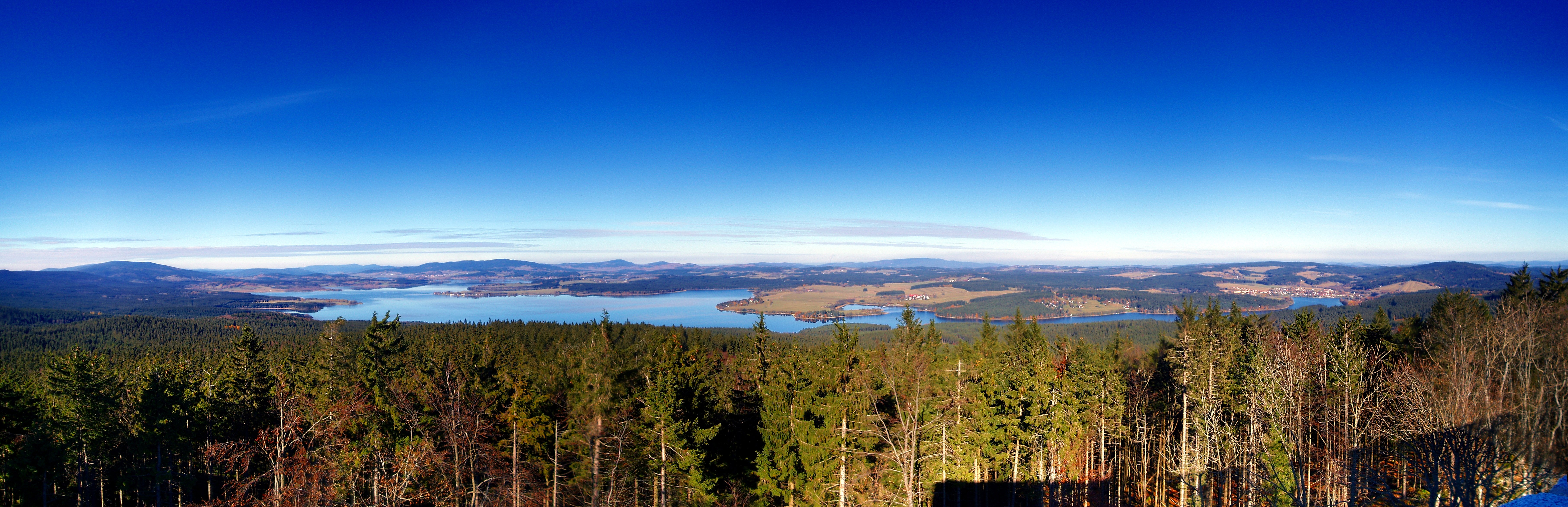 The Lipno Dam as seen from the castle Vítkův hrádek (Svatý Tomáš), Czech Republic